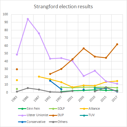 Strangford election results